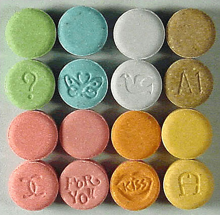 Ecstasy monogram